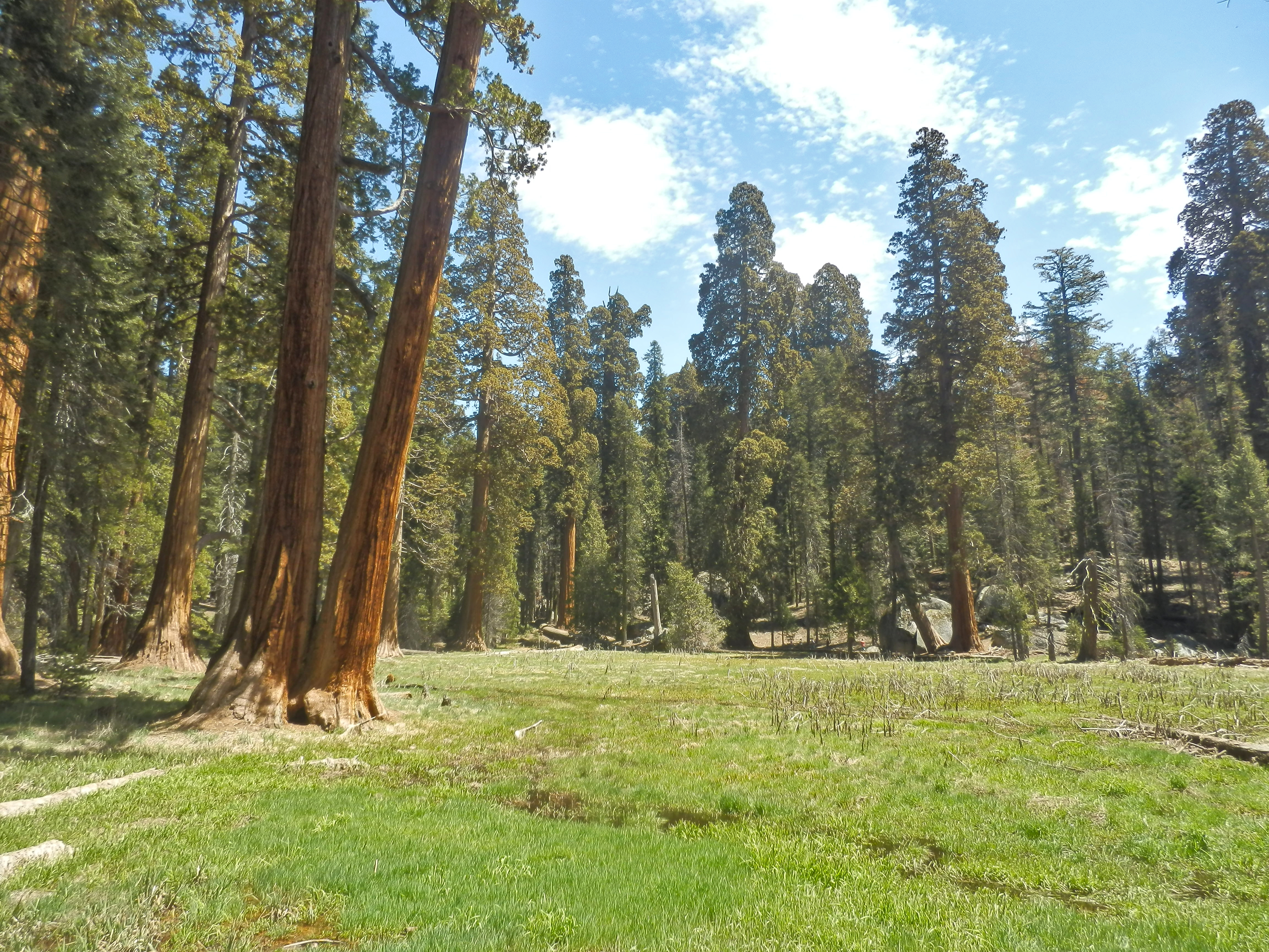 Round Meadow in the Sequoia Nationalpark